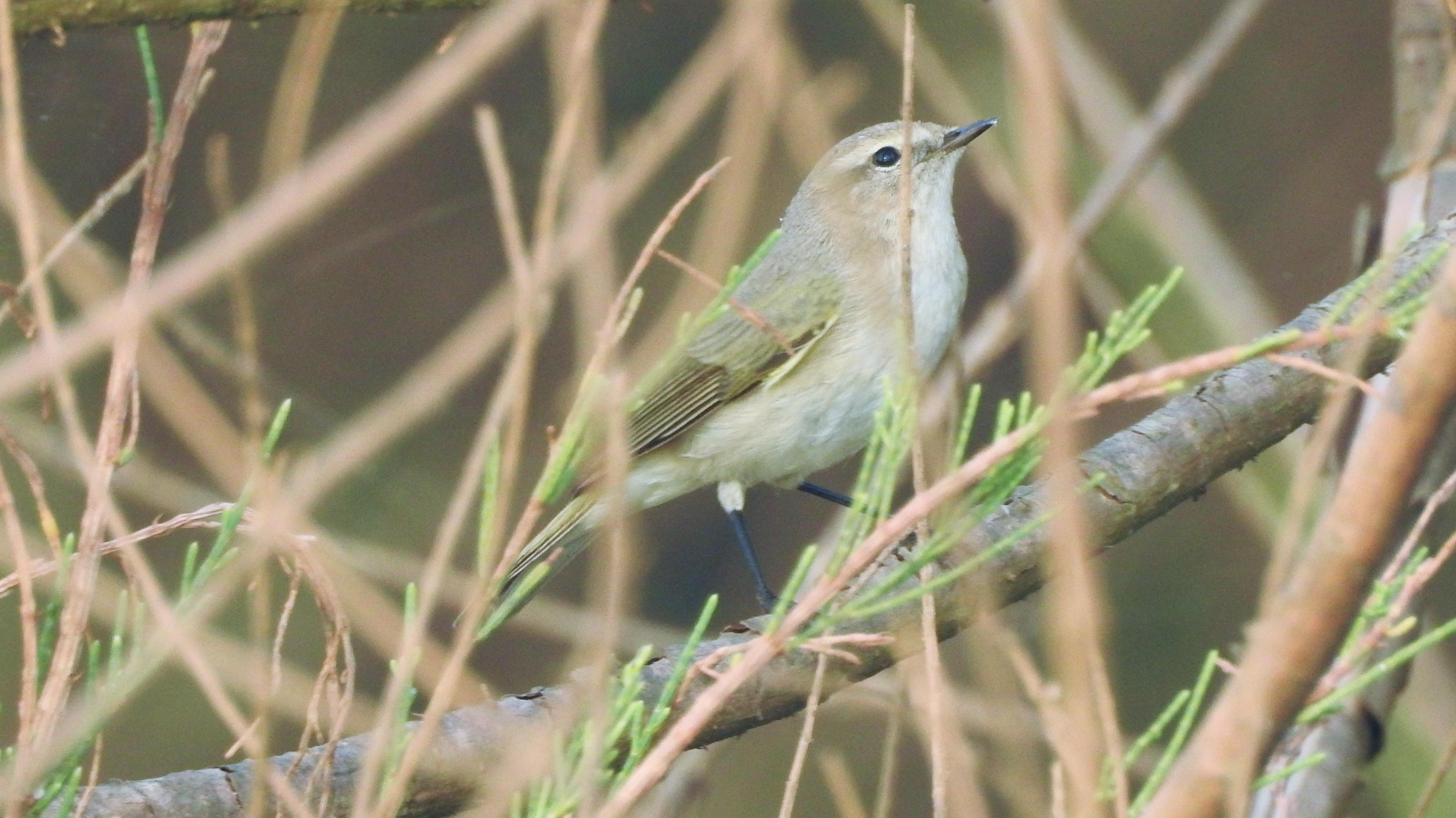 Common chiffchaff | ചിഫ്ചാഫ് ഇലക്കുരുവി First Photographic Record from Kerala 20 Dec 2019, Kumbala, Kasaragode